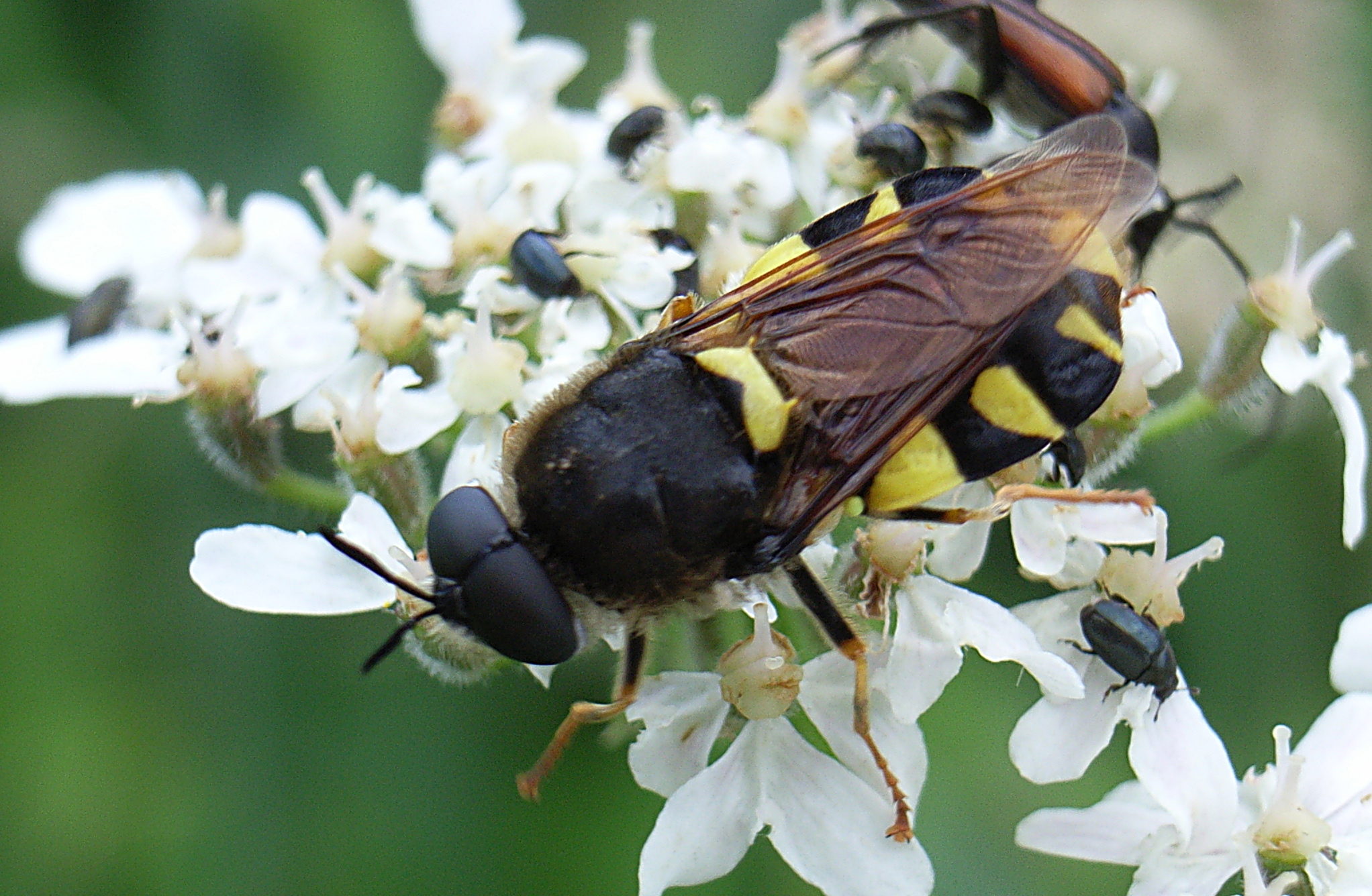 Male of Stratiomys chamaeleon